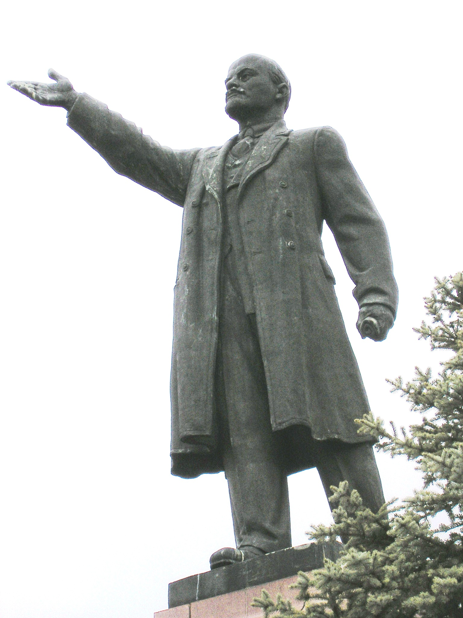 Lenin statue in Kineshma, next to the Volga River, close-up view.